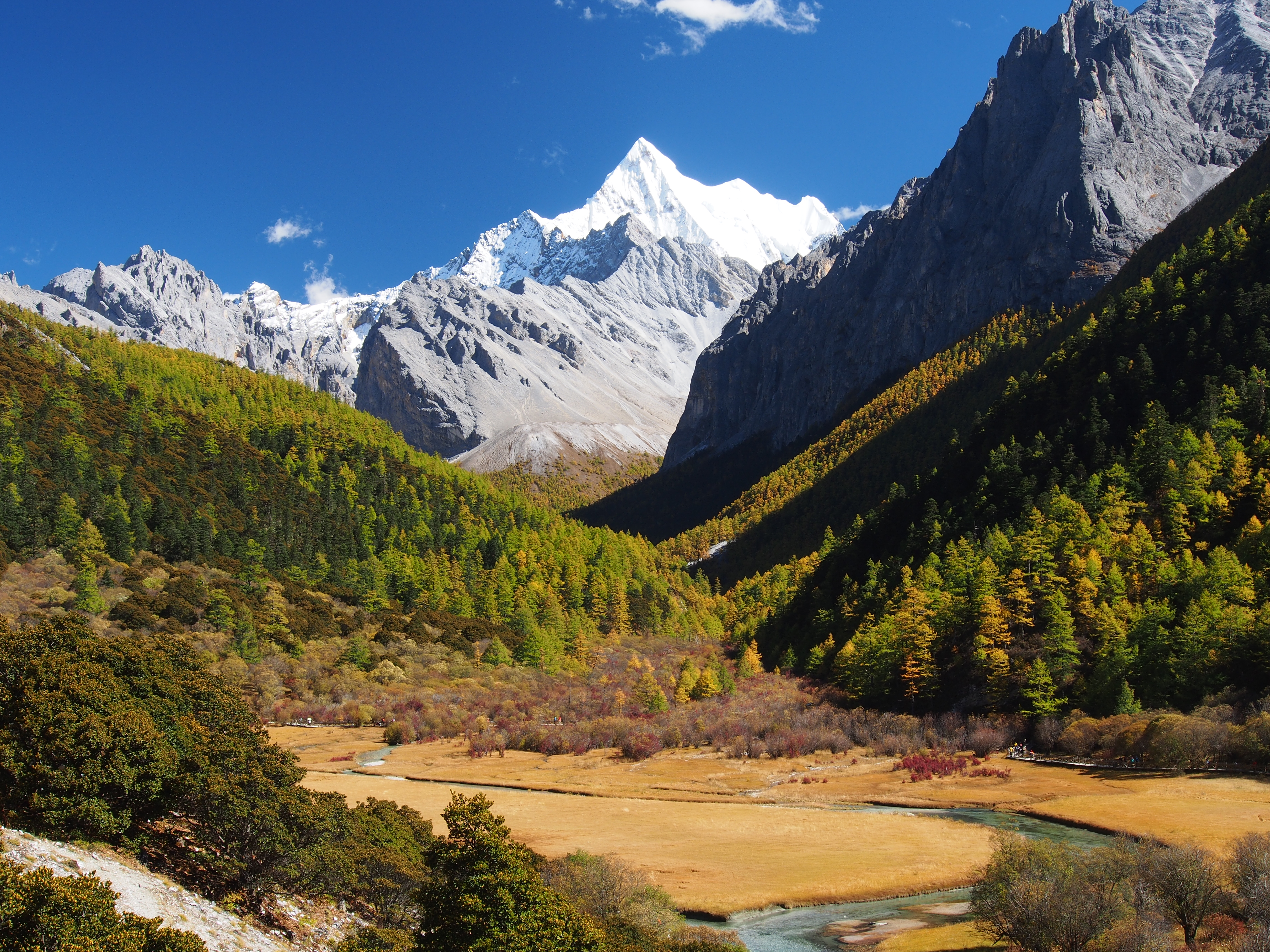 Chanadorje (Xianuoduoji, 5958m) and Chonggu Grassland, Yading National Nature Reserve